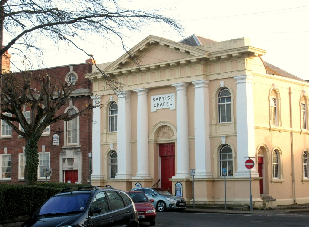 Weymouth Baptist Chapel, Bank Building, Dorset